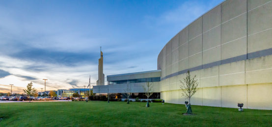 Wide view of Journey Church's current auditorium with building in background